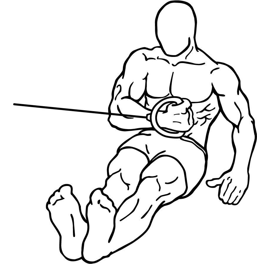 an exercise of rotator cuff